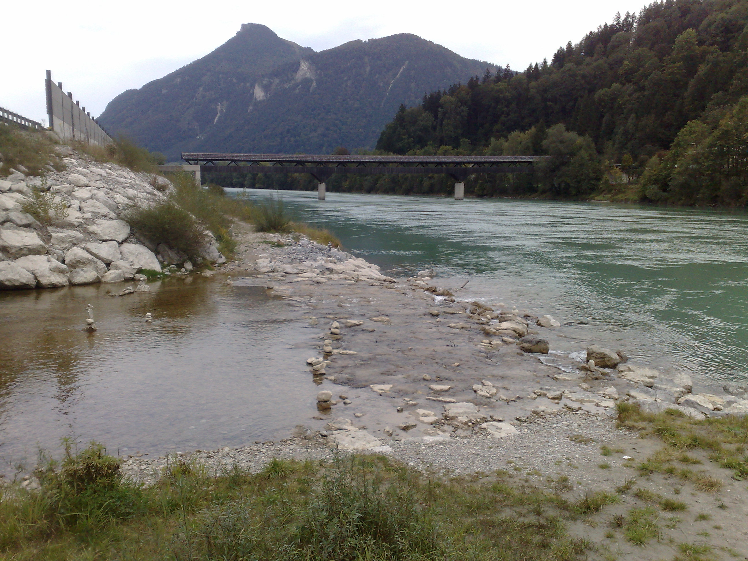 Confluence of the clear creek Auerbach from left (west) here into the north-flowing green-colored river Inn. View towards North. Over the Inn a wooden bridge to Erl-Zollhaus in Tyrol. In the background the Kranzhorn, on whose summit the German-Austrian border runs.